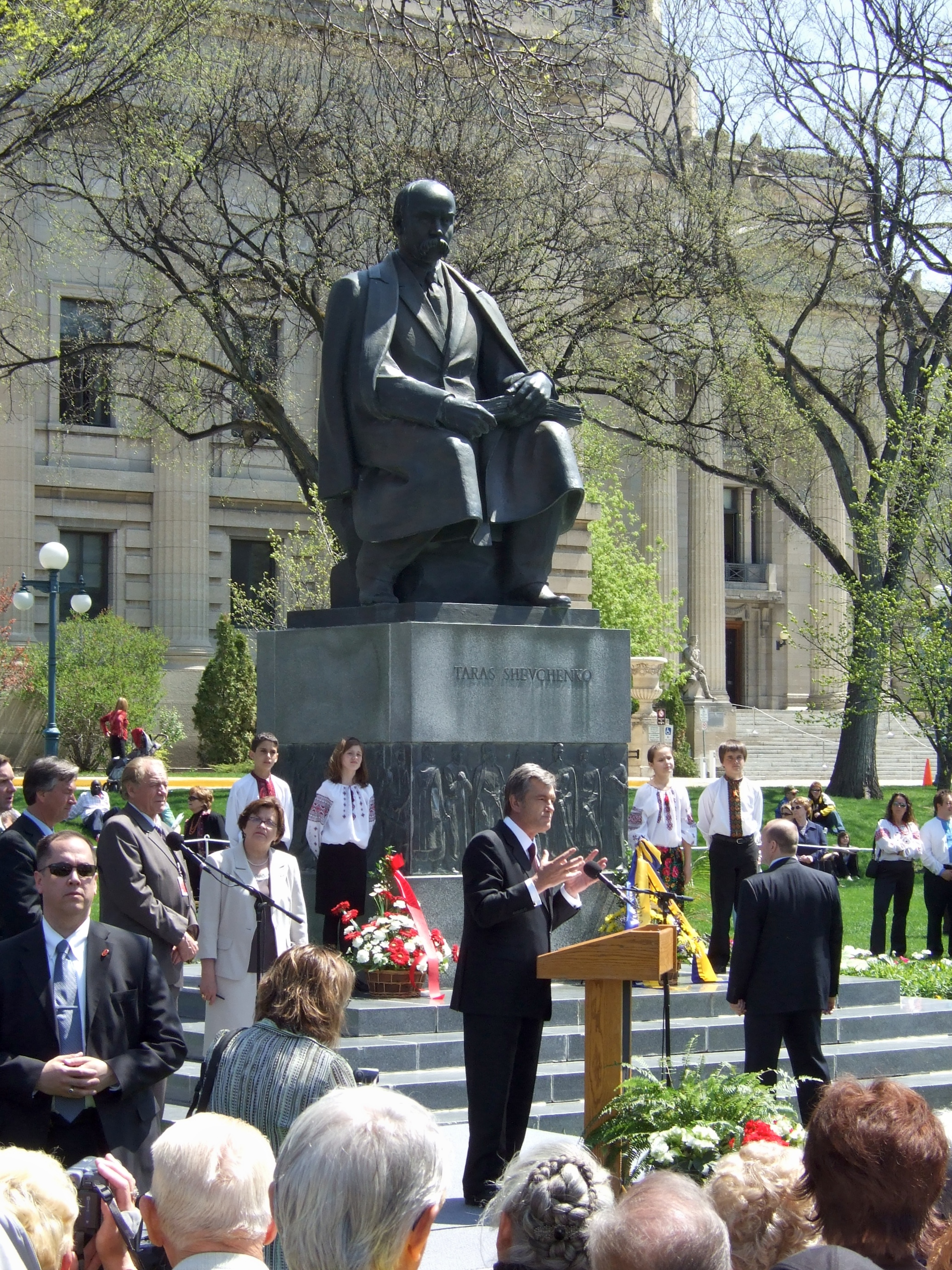 Viktor Yushchenko speaking under the Taras Shevchenko monument on the grounds of the Manitoba Legislative Building